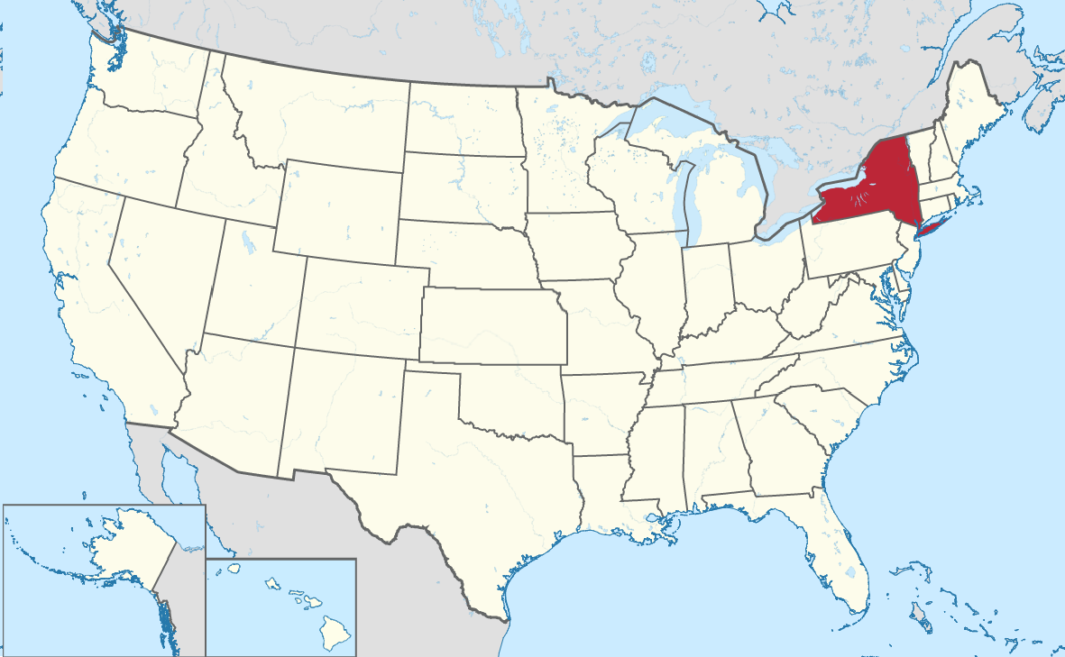 Map of the United States with New York highlighted.